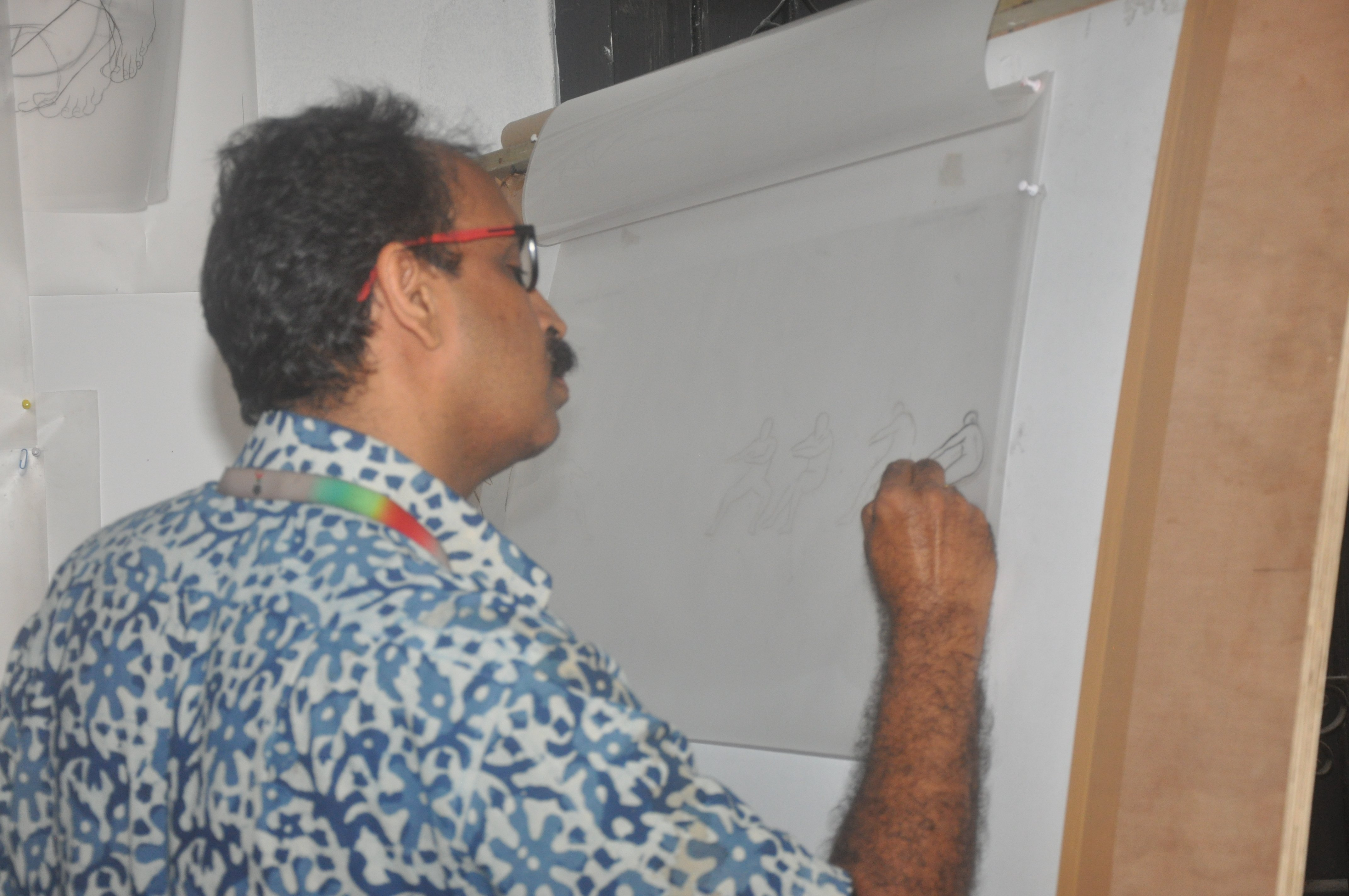 Artist C Bagyanath in Kochi-Muziris Biennale 2016